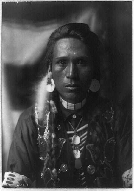 Portrait of a man, bust, facing front, long braided hair, shell disk earrings, shell choker, cloth shirt, beaded vest. MEDIUM: 1 photographic print.